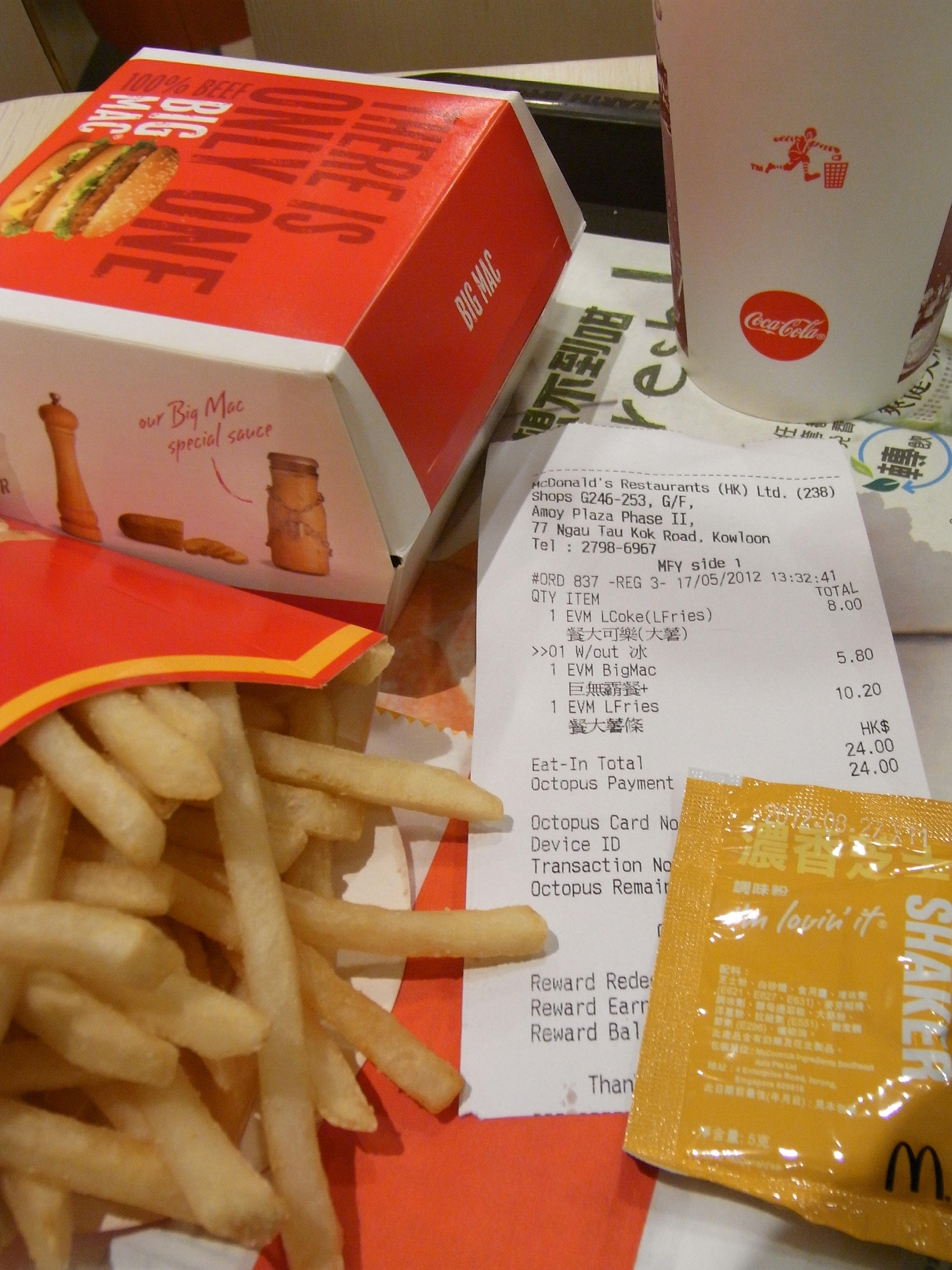 麥當勞, McDonald's in Hong Kong